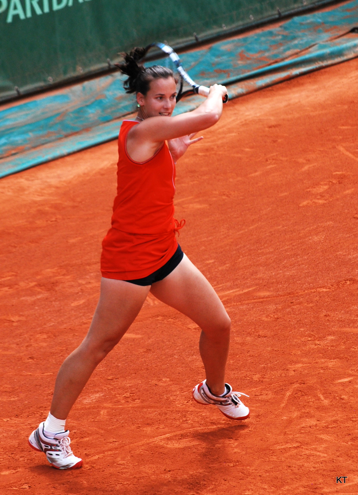 Jarmila Gajdosova in her 1st round mixed doubles match with Bruno Soares against Alicja Rosolska & Alexander Peya. Rosolska & Peya won 3-6, 7-6, 10-8. Day 7 of Roland Garros 2012.